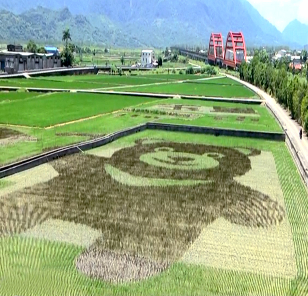 Taiwan, Yuli township : tanbo art composition showing a Formosan black bear (Hualien county).